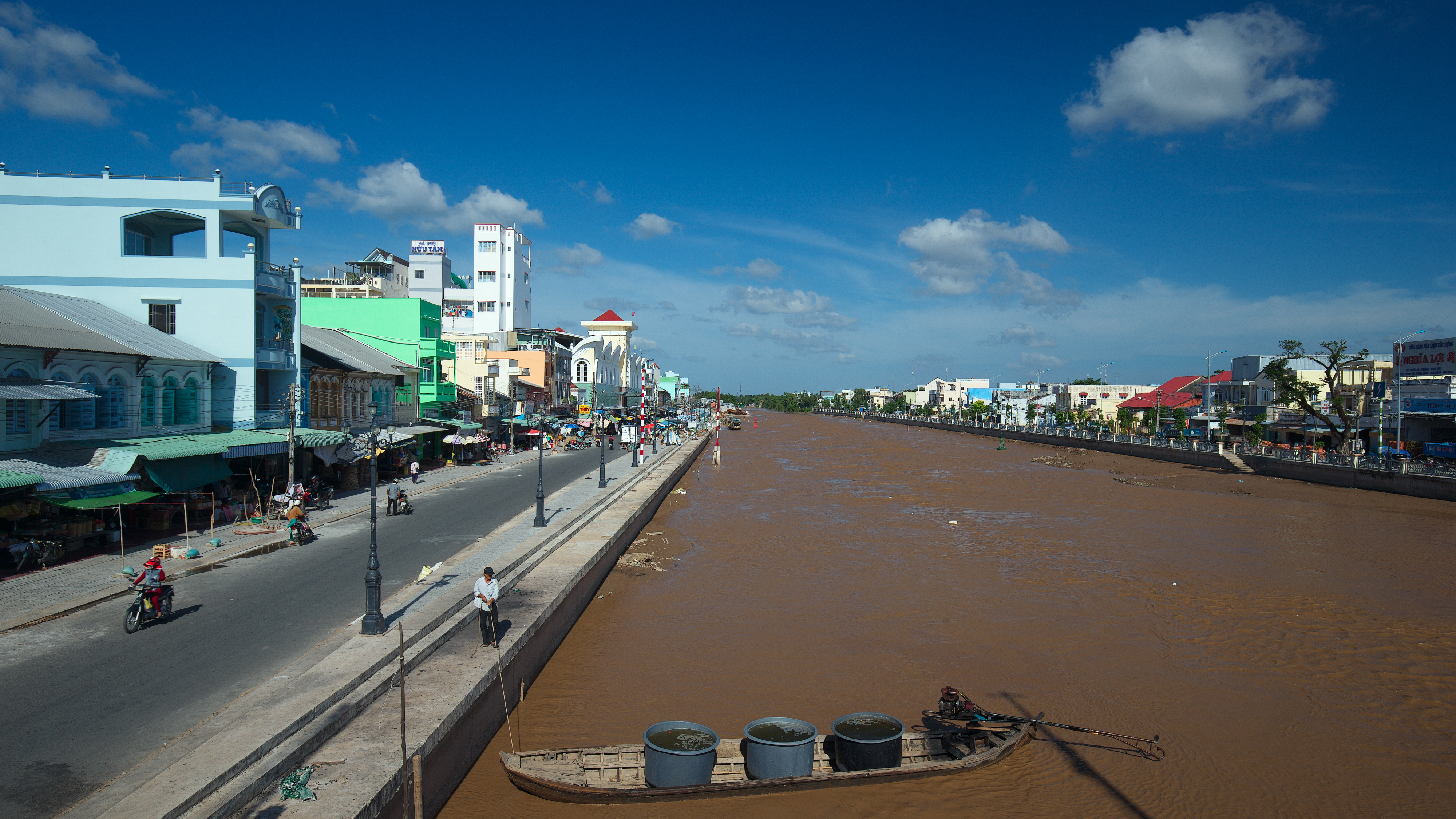 Bạc Liêu city view